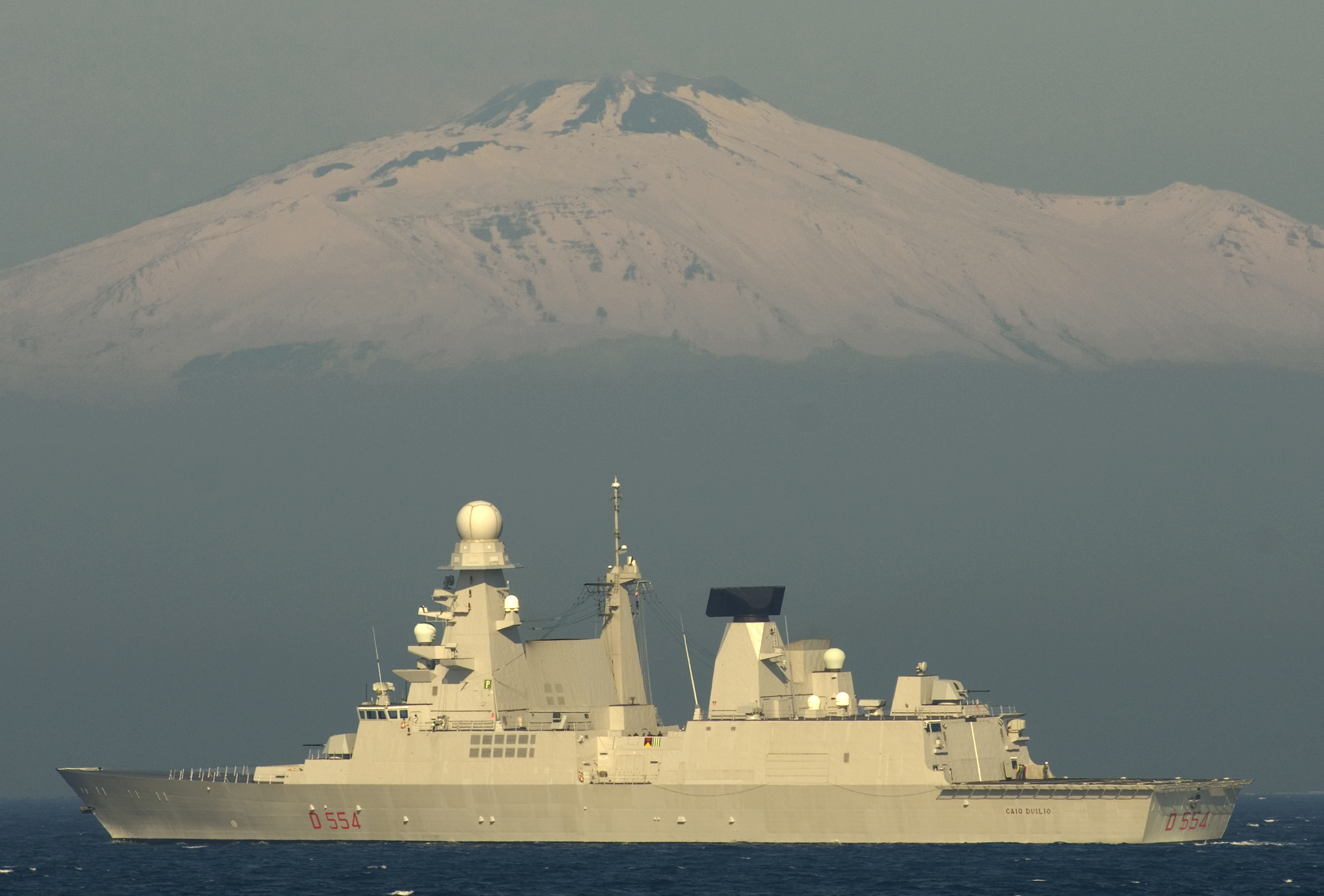 ITS Caio Duilio and Etna Volcano in background